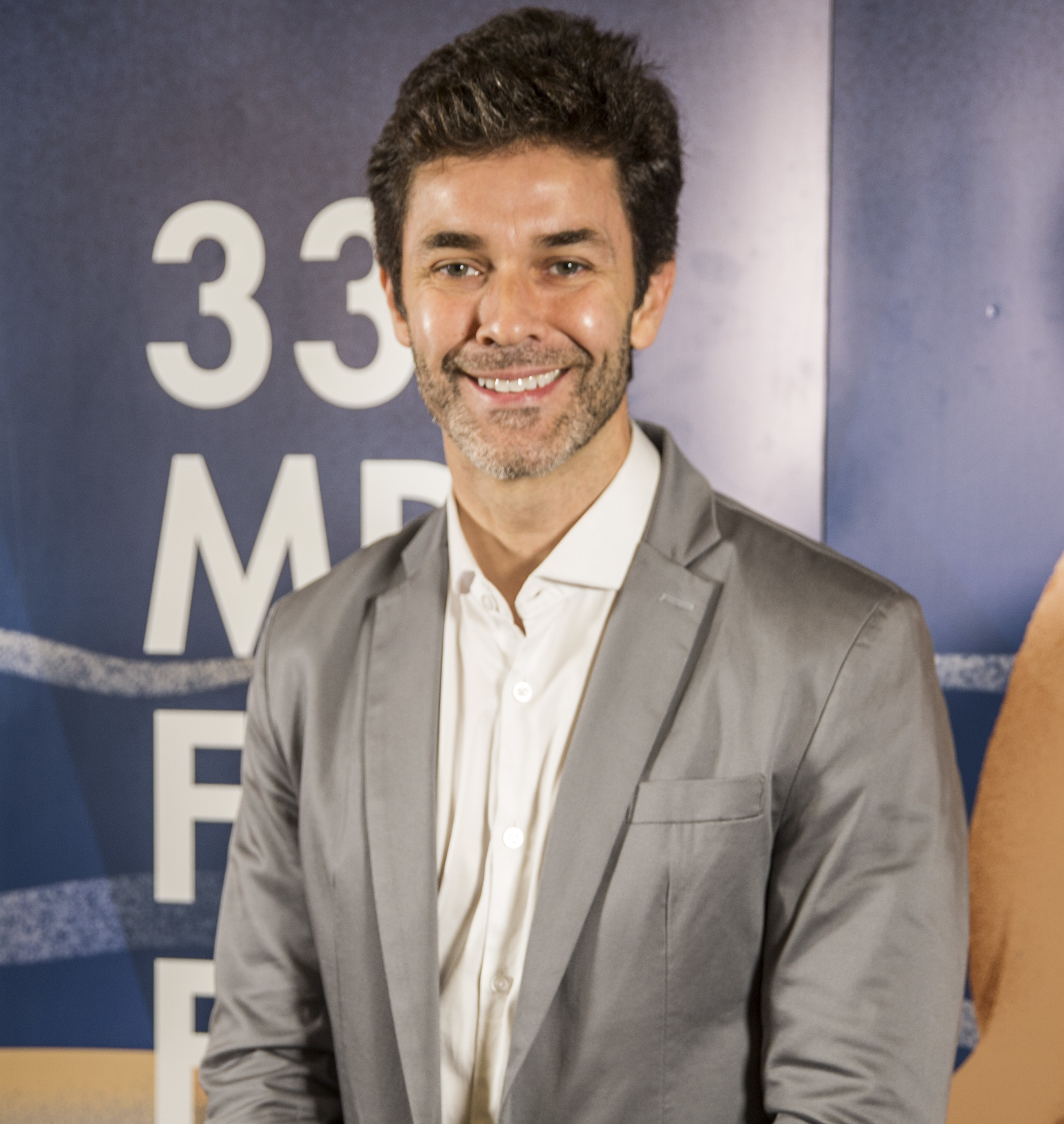 Buenos Aires, 25 de octubre de 2018 - En el museo de Arte Decorativo se presentó la programación del Festival de Cine de Mar del Plata.